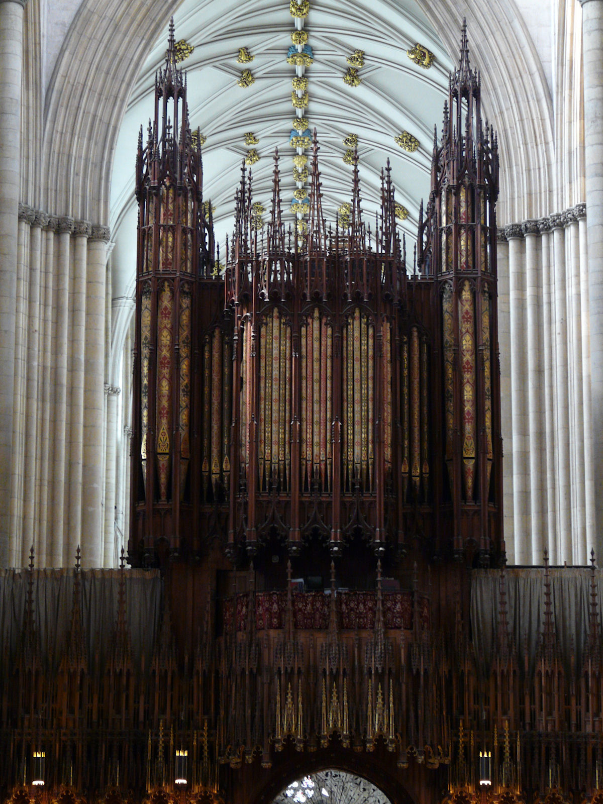 Organ above the pulpitum in York Minster, York, England